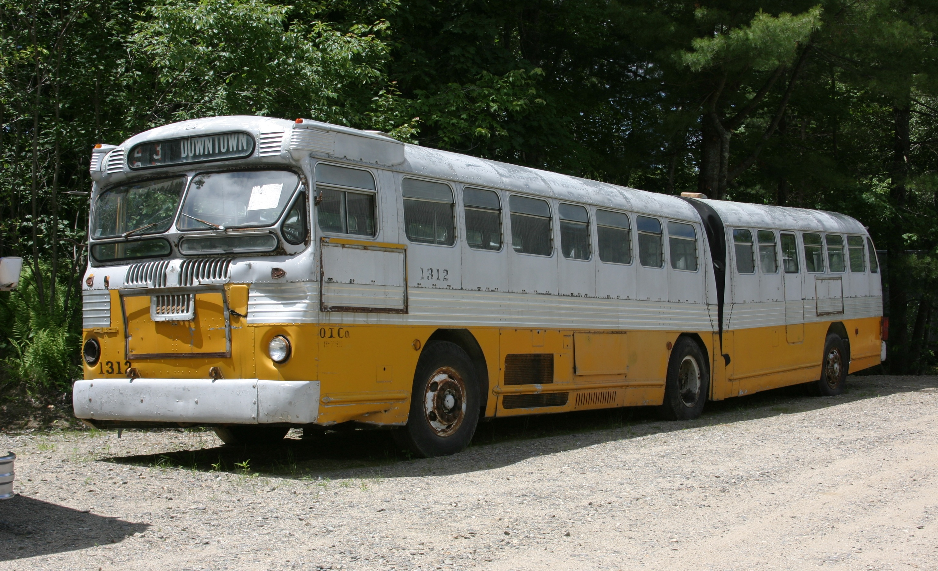 Ex-Omaha Transit Company bus 1312, a 1947 Twin Coach articulated motor bus, preserved at the Seashore Trolley Museum.